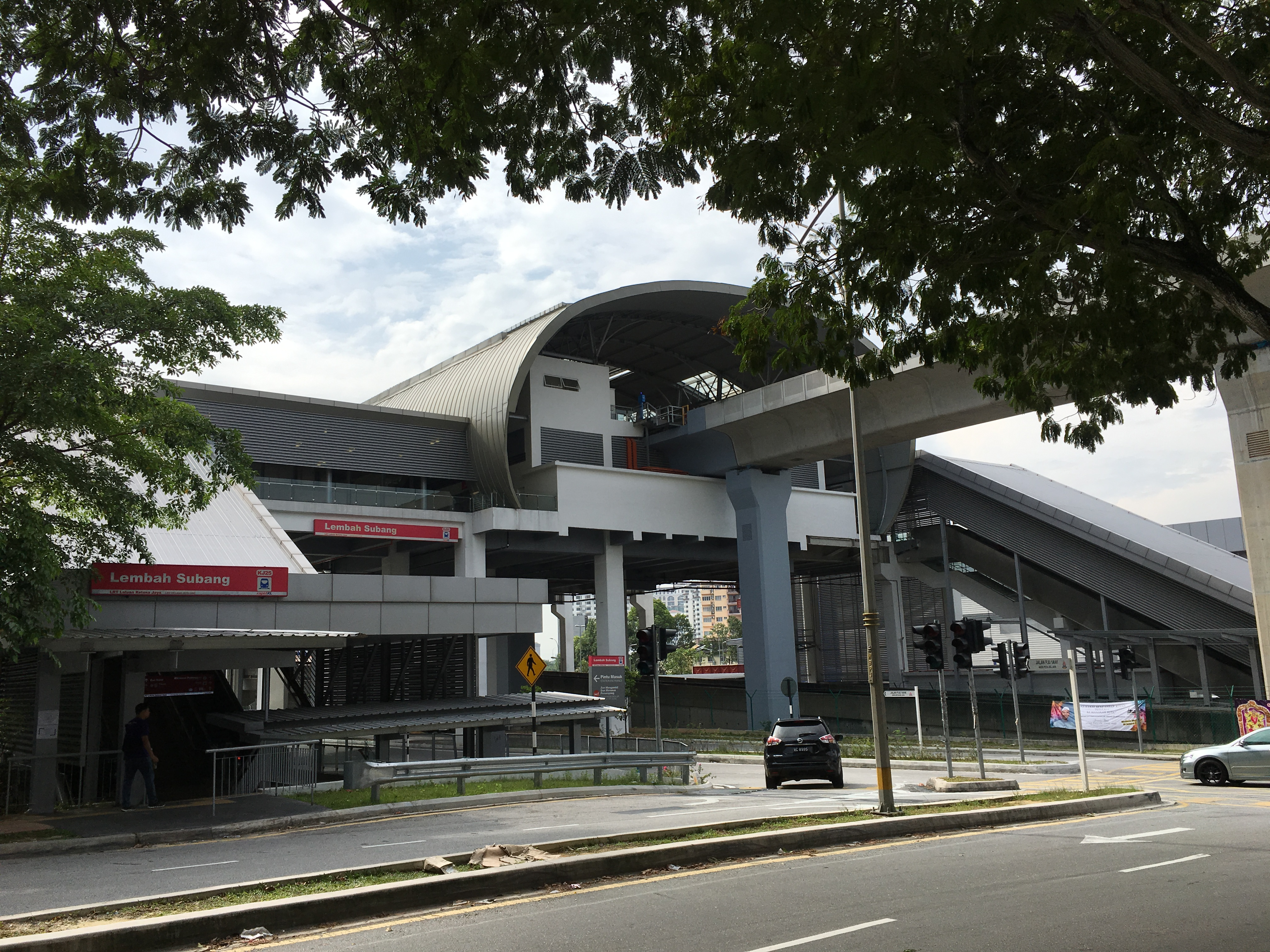 Station from Jalan PJU1A/41